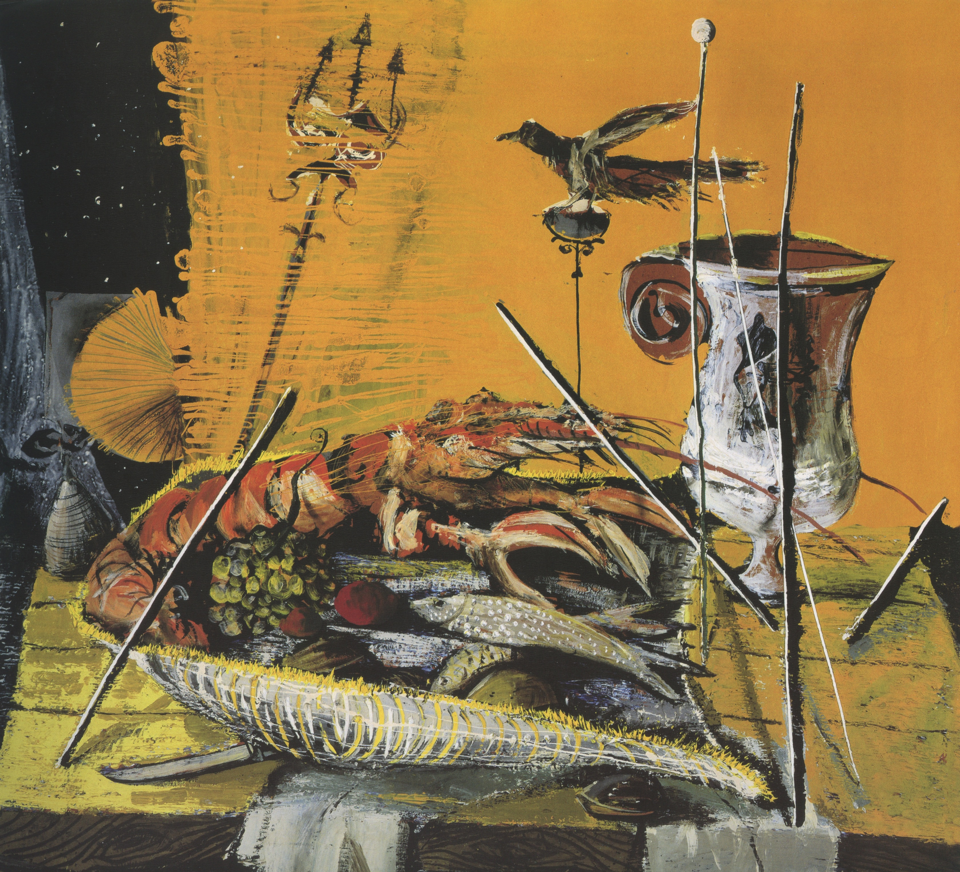 'Pompeian Lobster' by Christo Coetzee, ca.1954, 120 x 120cm, oil on hardboard, signed bottom right 'Christo Coetzee'; Exhibited: Hanover Gallery, London, 1955, no. 37. Provenance: Anthony Denney. (Stevenson & Viljoen, 2001)